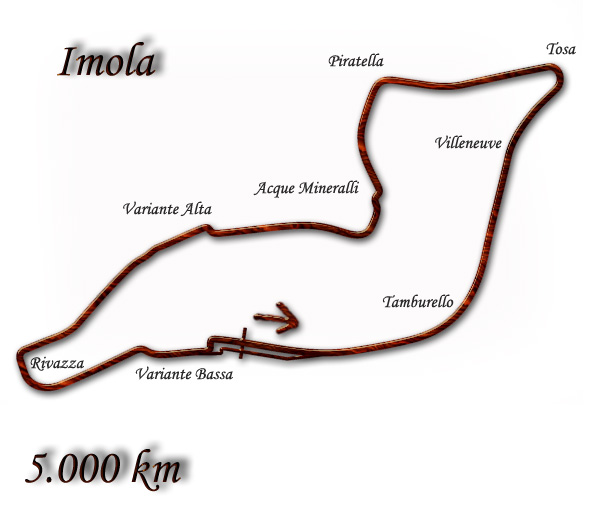 Italian Grand Prix Formula 1 /1980/ Autor: Jiří Žemlička